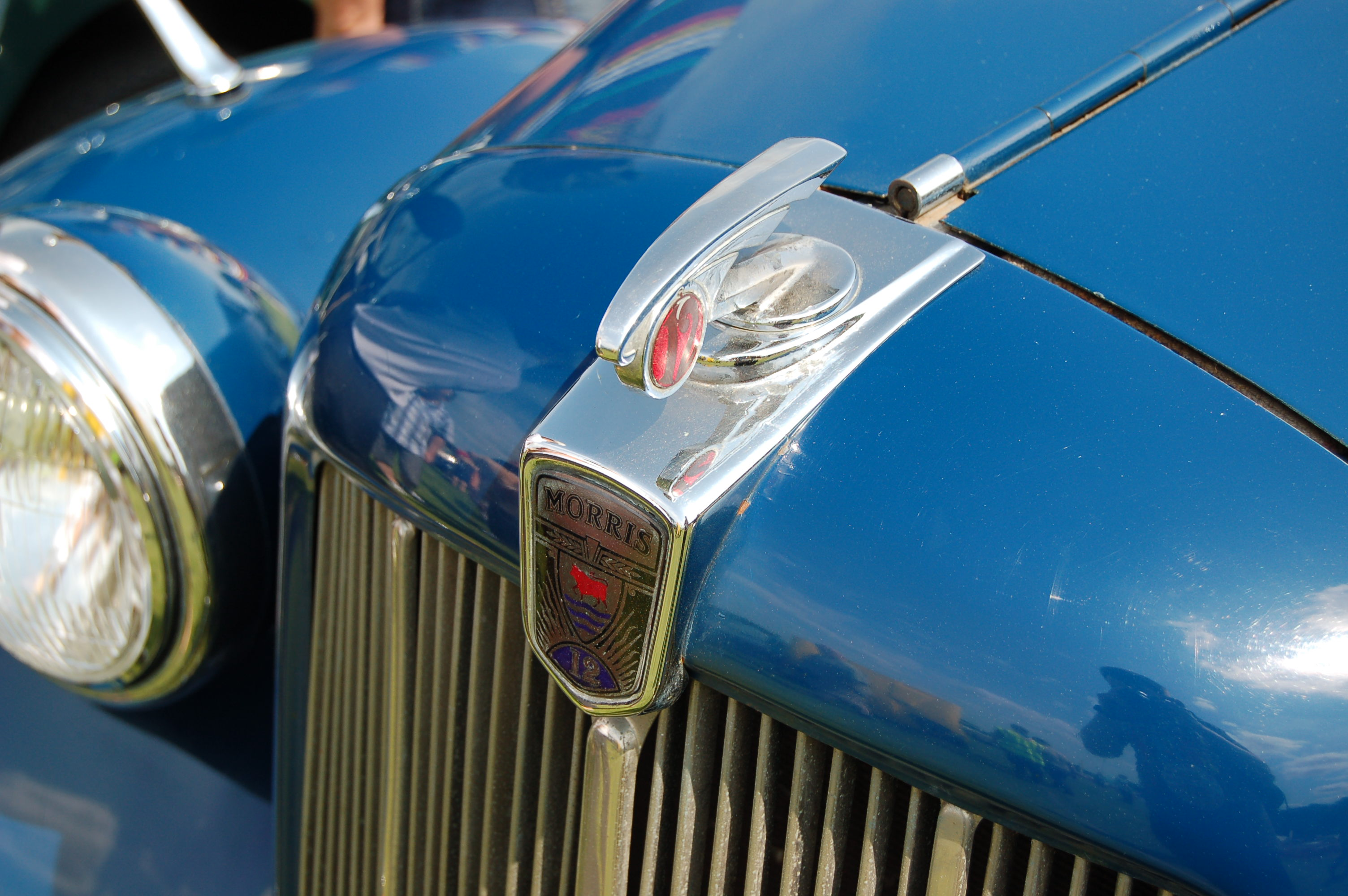 1939 Morris 12 saloon DVLA first registered 6 March 1939, 1479cc Corbridge Classic Car Show 7 July 2013